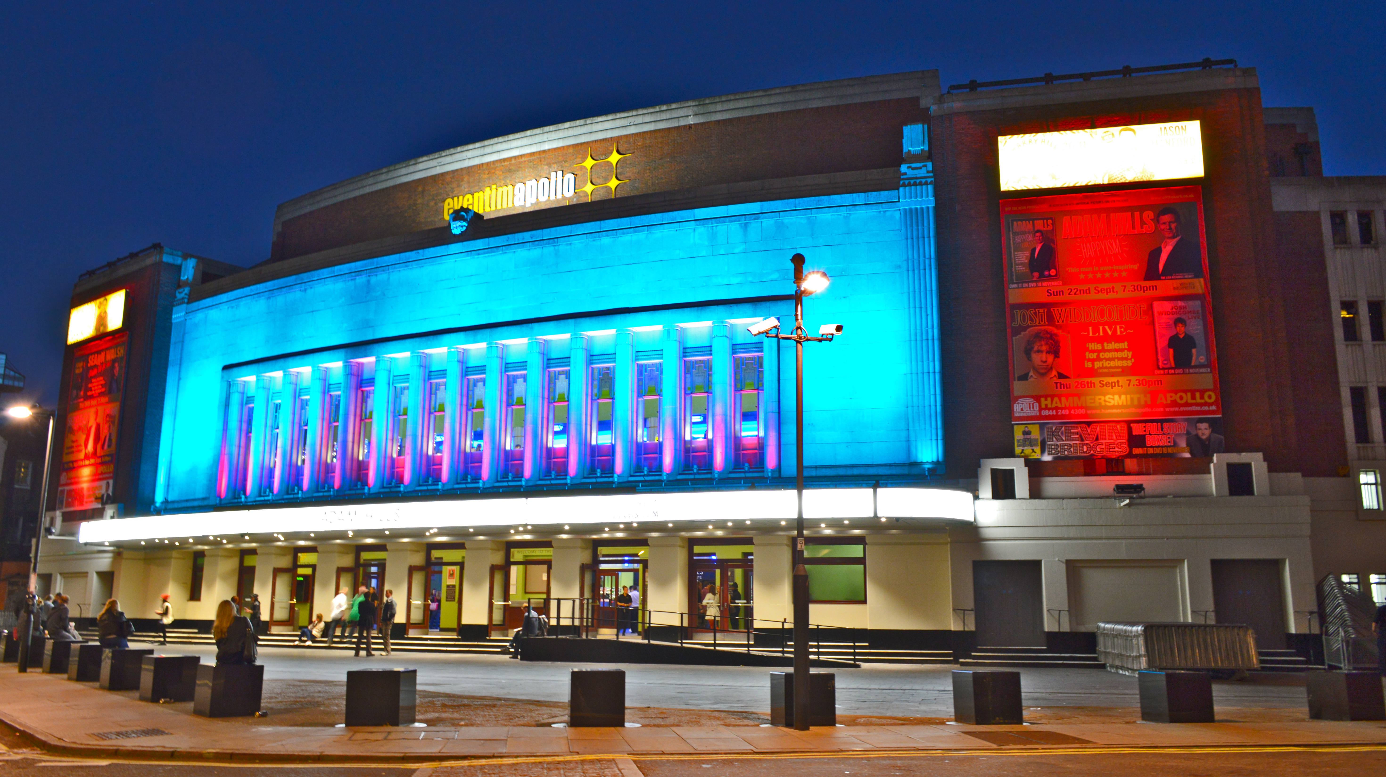 Hammersmith Odeon, former cinema, now concert venue